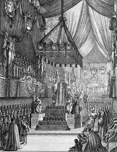 Funérailles d'Henriette d'Angleterre